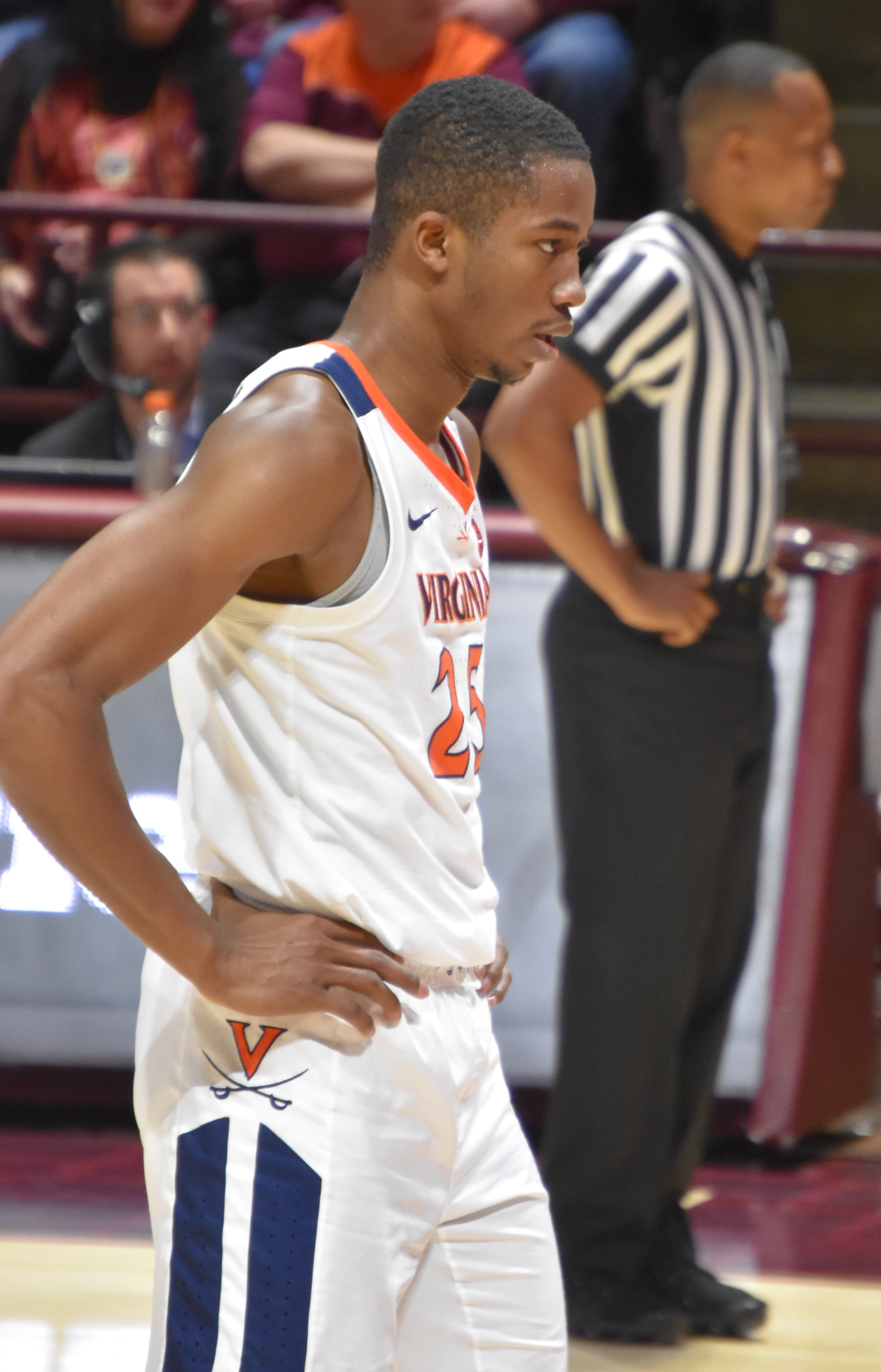 Mamadi Diakite at the free Throw Line for the Cavaliers.